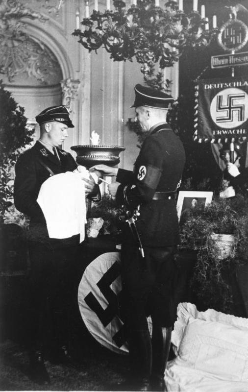 Photo showing a child's baptism (christening) ceremony/ritual in 1936